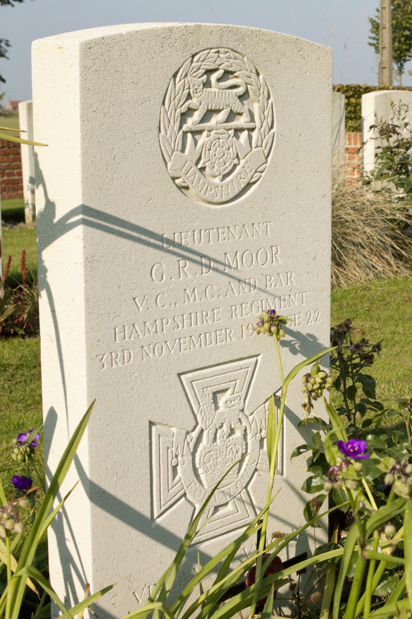 Y Farm_Military_Cemetery. Grave of V.C. George Moor